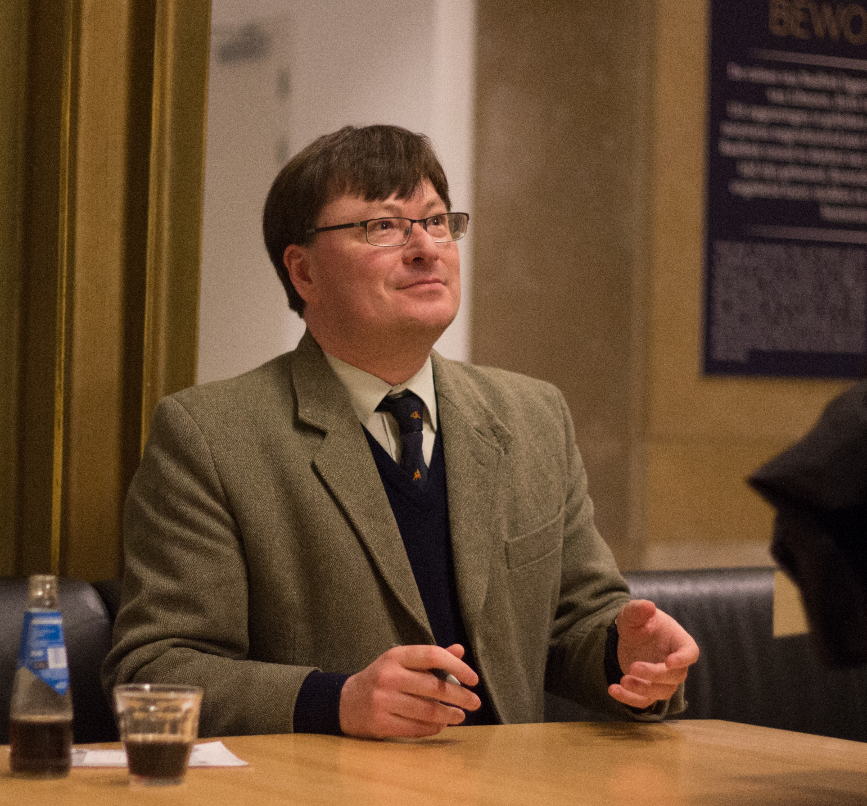 Adrian Goldsworthy at the presentation of the Dutch translation of "Augustus: from Revolutionary to Emperor"